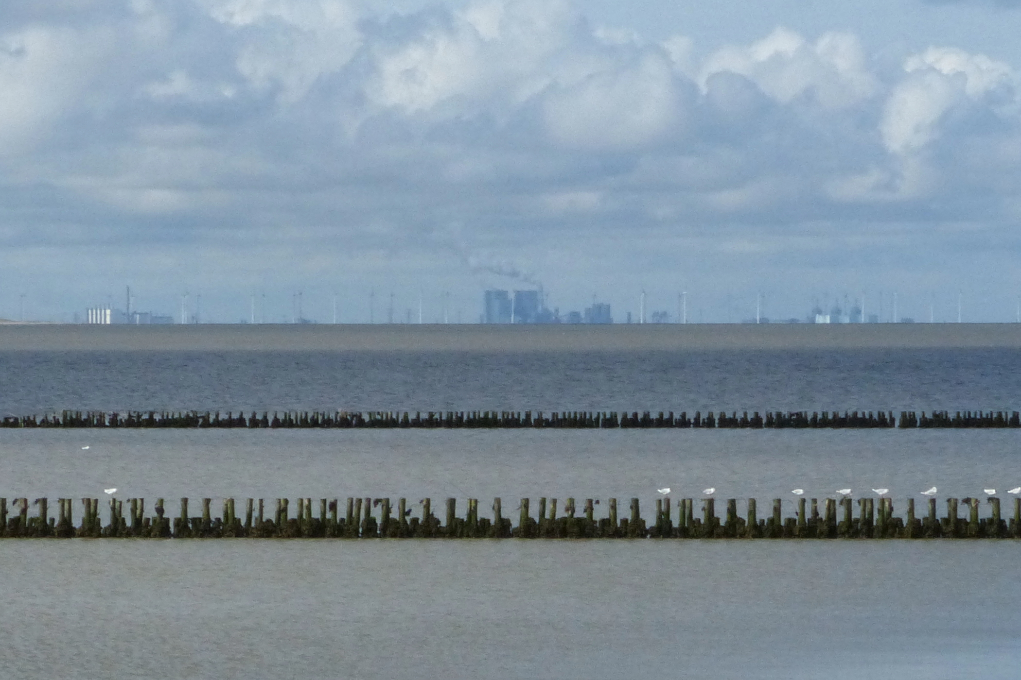 Eemshaven Energy Park, seen from the eastern side of Leybucht (GER), i.e. across the Ems estuary, from left to right three huge electric power plants: Eemscentrale, Eemshavencentrale (RWE) and Magnum (Vattenfall/NUON)